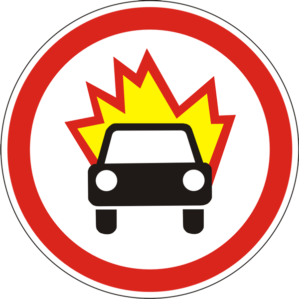 No vehicles carrying explosives.